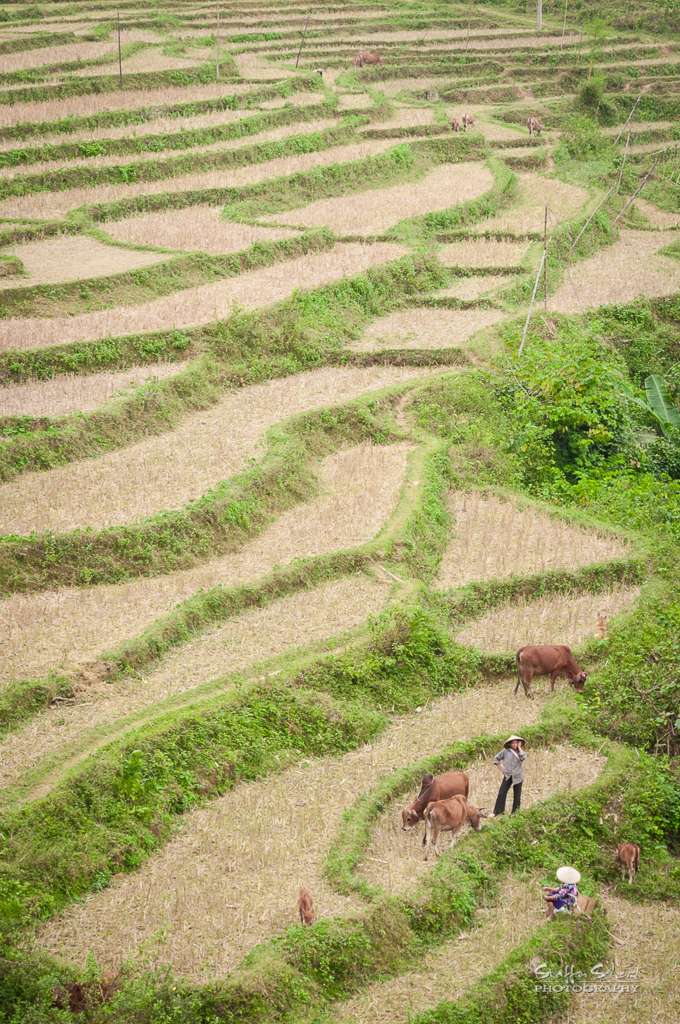 Pu Luong National Reserve